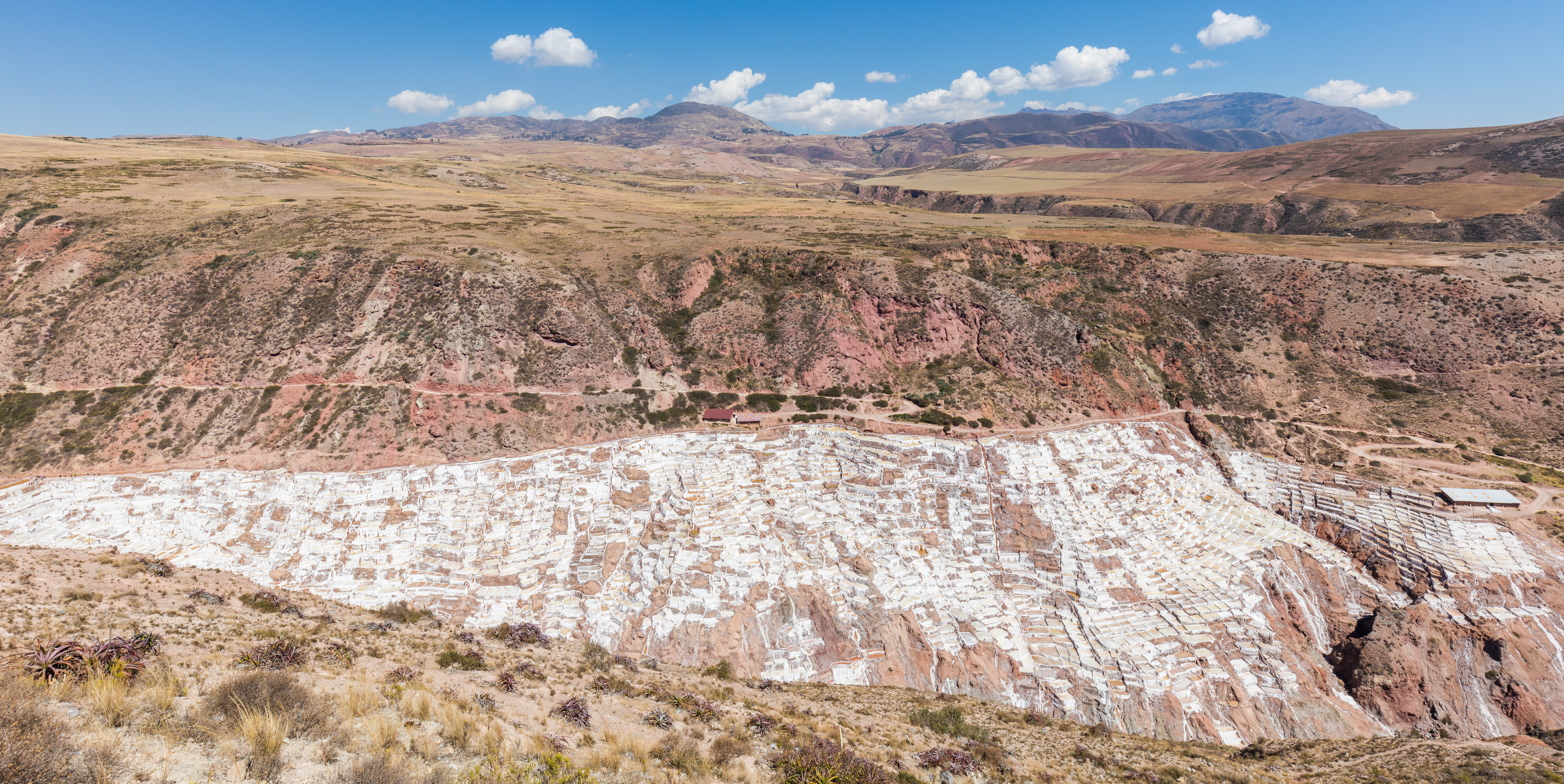 Salineras (salt evaporation ponds) in Maras, Peru